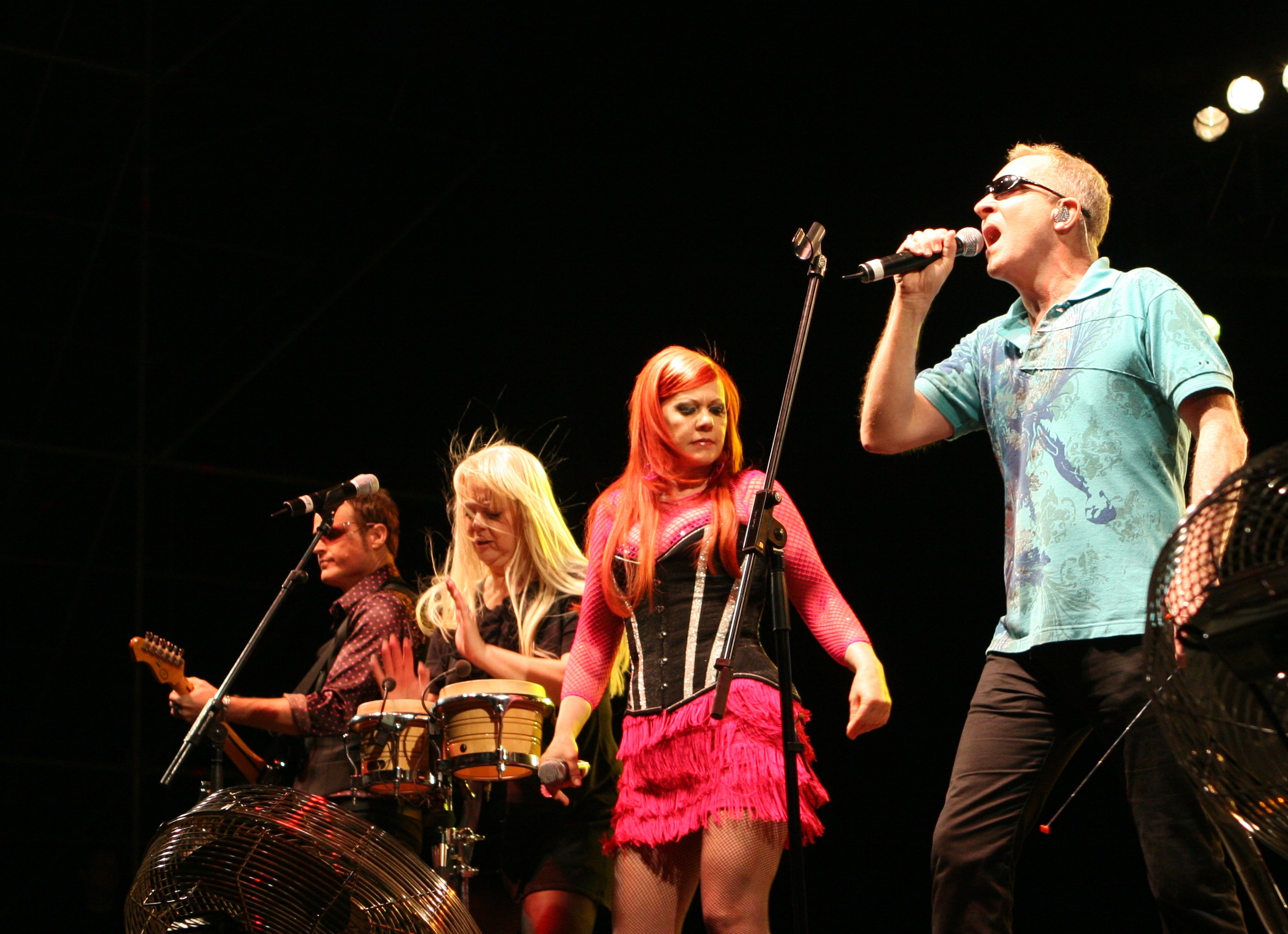 The B-52s at Festival Internacional de Benicàssim on July 9, 2008. From left to right: Keith Strickland, Cindy Wilson, Kate Pierson, and Fred Schneider.